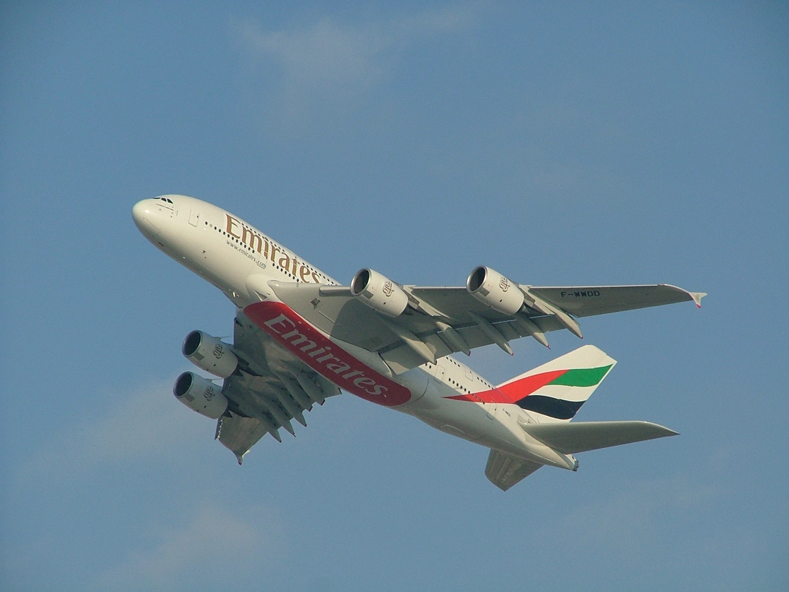 Photo taken at the Dubai Airshow 2005, showing the Airbus A380 (F-WWDD) flying in the traditional Emirates Airlines colors.